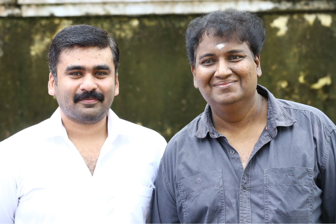 Arunlal and Rajesh Pillai during the release of Vettah